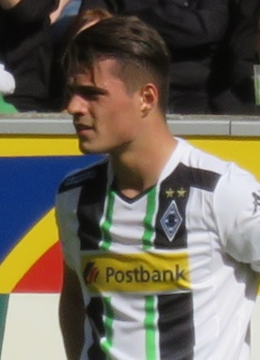 Granit Xhaka, 2015